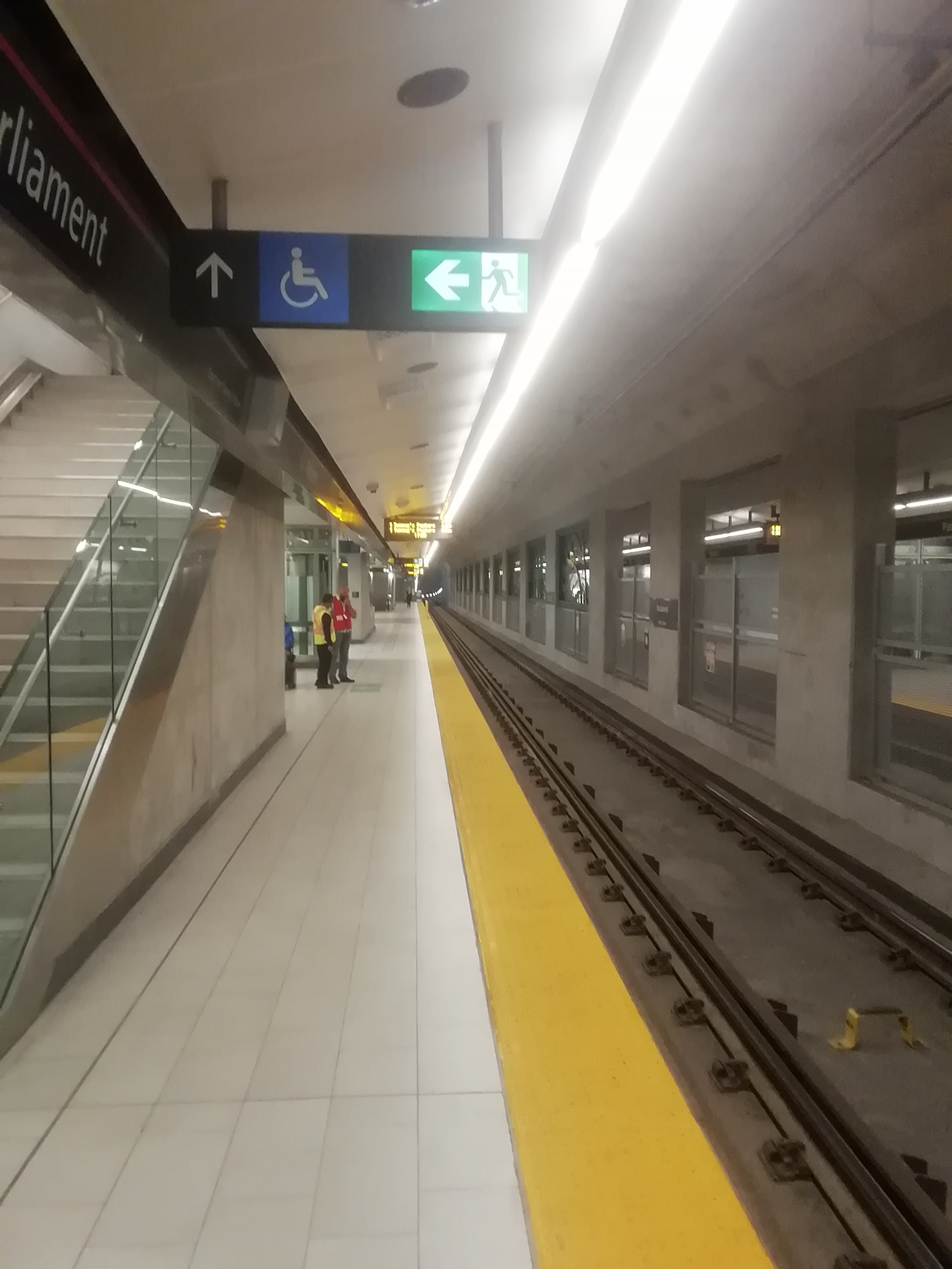 Parliament Station platform, Ottawa